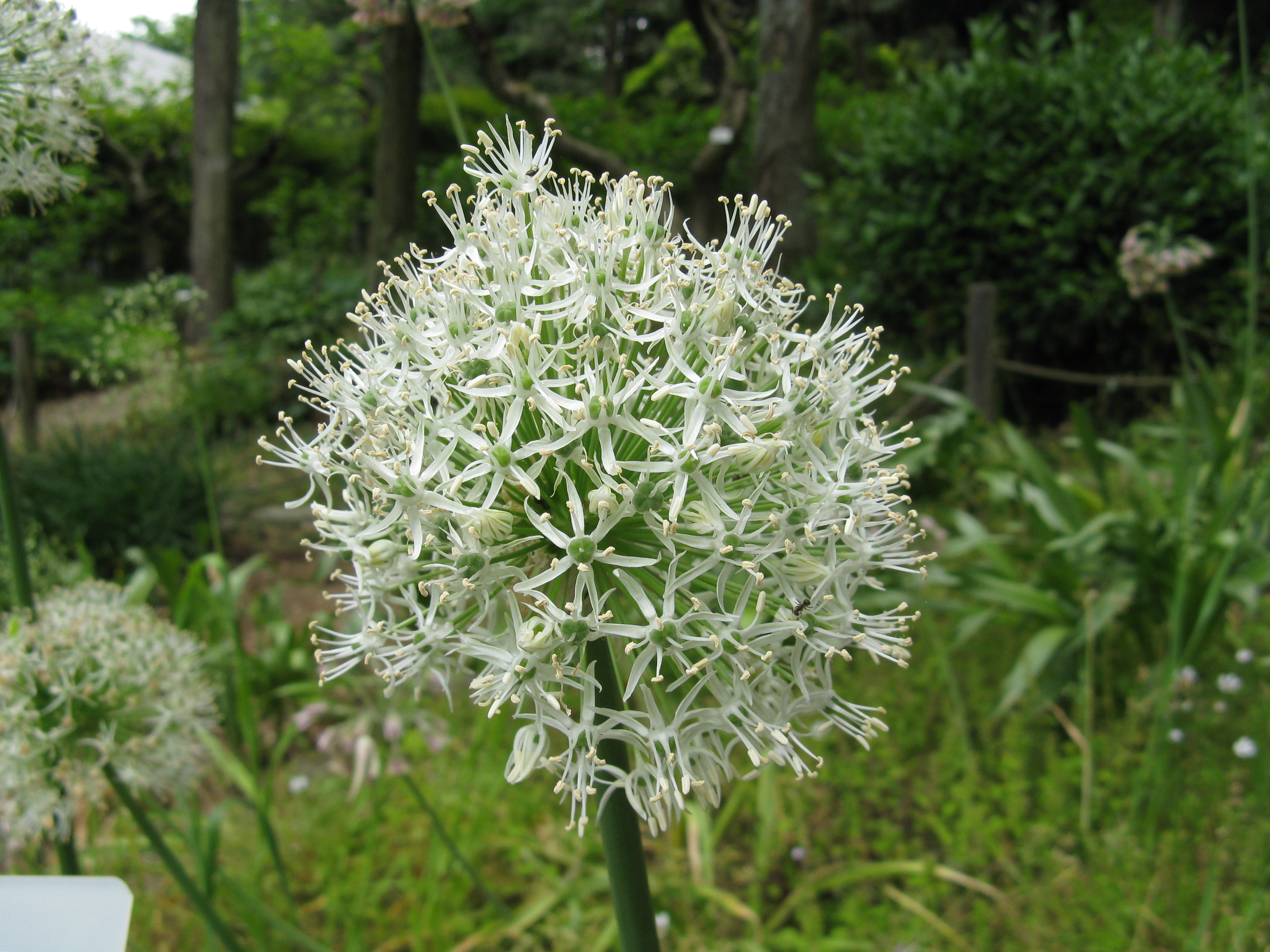 Scientific name Allium stipitatum 'Mt Everest' Place:Osaka Prefectural Flower Garden,Osaka,Japan